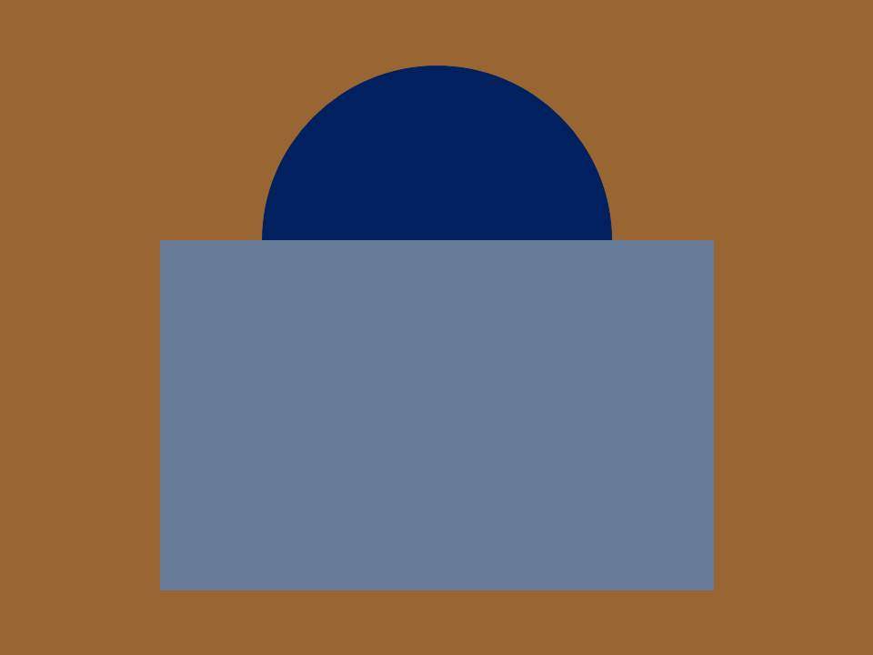 1933 - Constituted as the 51st Engineer Battalion 1938 – Designated as the 92nd Engineer Battalion 1941 – Formed at Fort Leonard Wood, Missouri Captioned As { }